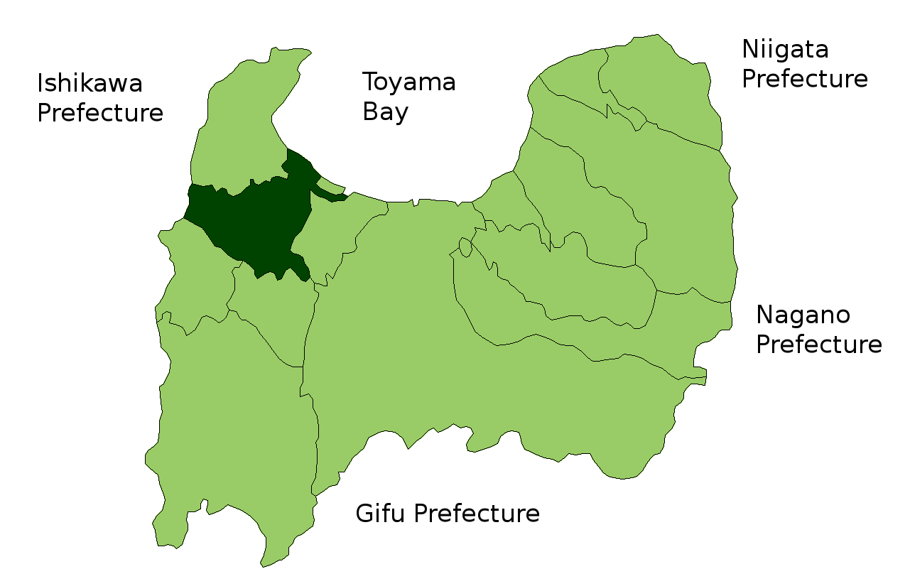 Location Map of Takaoka in Toyama Prefecture, Japan